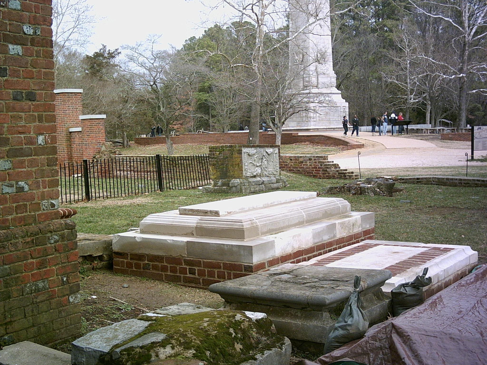 James Blair's tomb in Jamestown